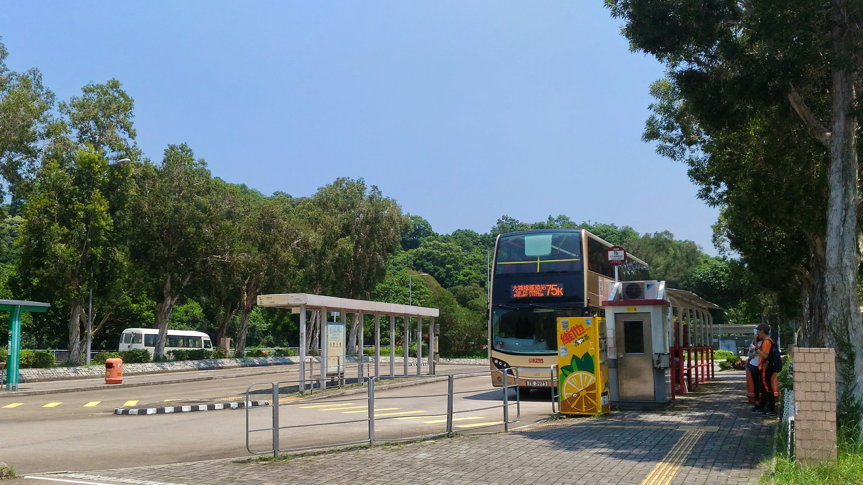 A route 75K bus at the Tai Mei Tuk Public Transport Interchange, New Territories, Hong Kong.